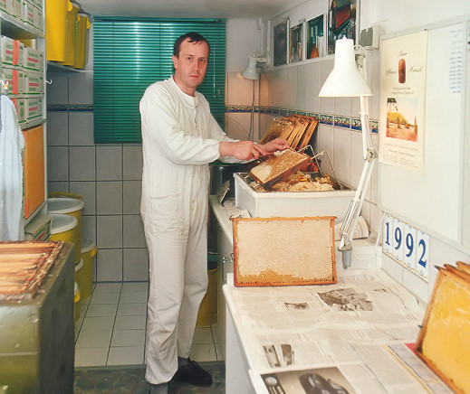 The apiarist is capping the honeycomb (i.e. removing the wax layer made by the bees from fresh honey) before spinning the honey.